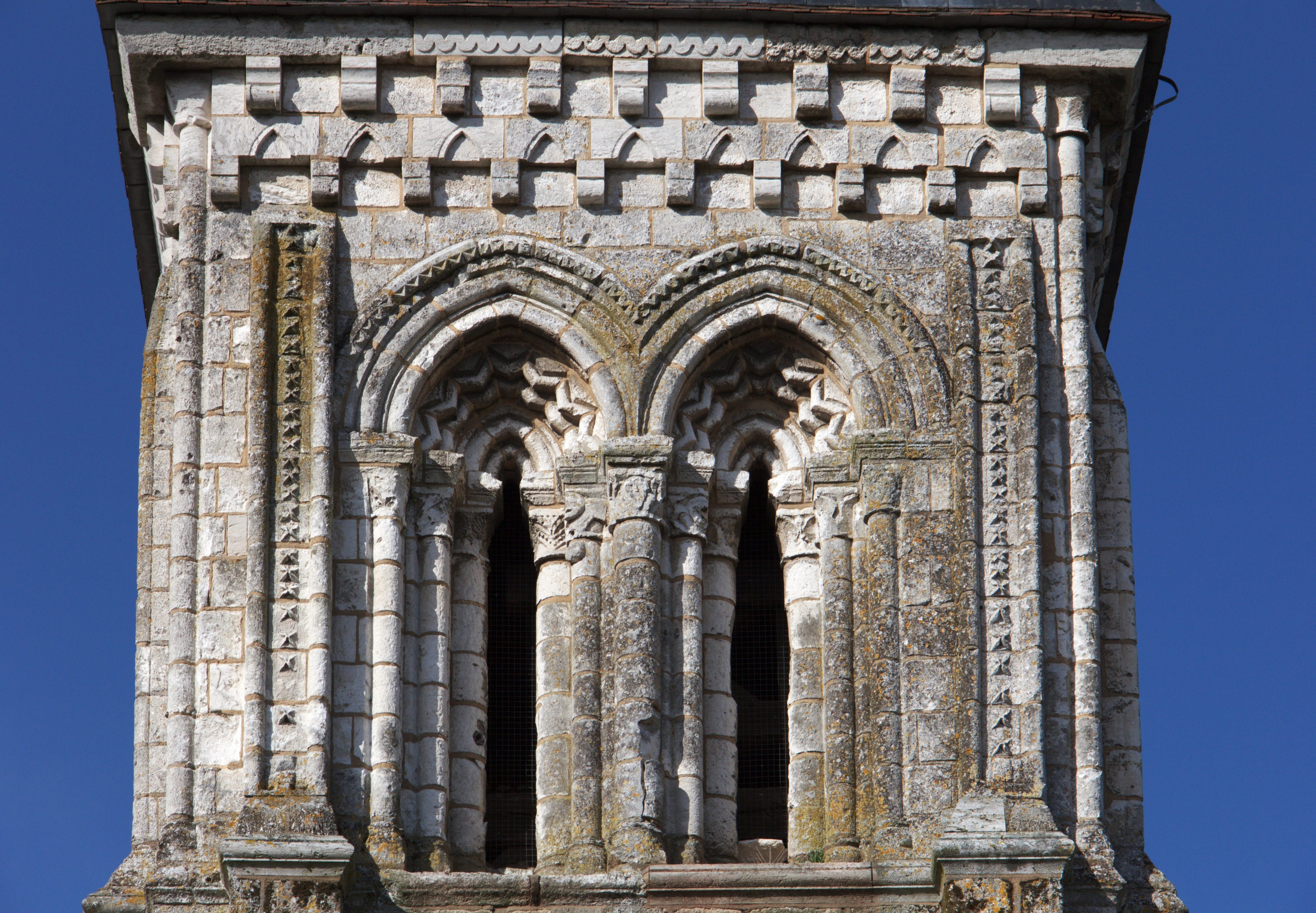 Detail of the bell tower of the church Saint-Ouen in Routot. 12th century, classé monument historique, in the base mérimée PA00099538 and IA00018660.